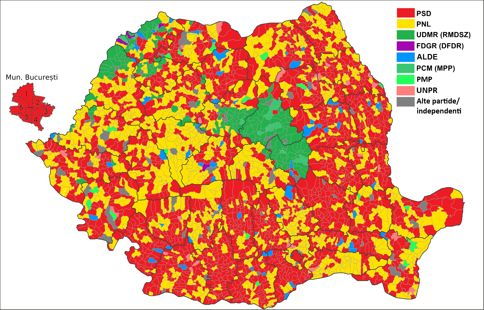 Political affiliation of romanian mayors after local elections 2016: PSD=social democratic party PNL=National Liberal Party UDMR=Democratic Union of Hungarians in Romania FDGR=Democratic Forum of Germans in Romania ALDE=Alliance of Liberals and Democrats PCM=Hungarian Civic Party PMP=People's Movement Party UNPR=National Union for the Progress of Romania grey=independents/other parties